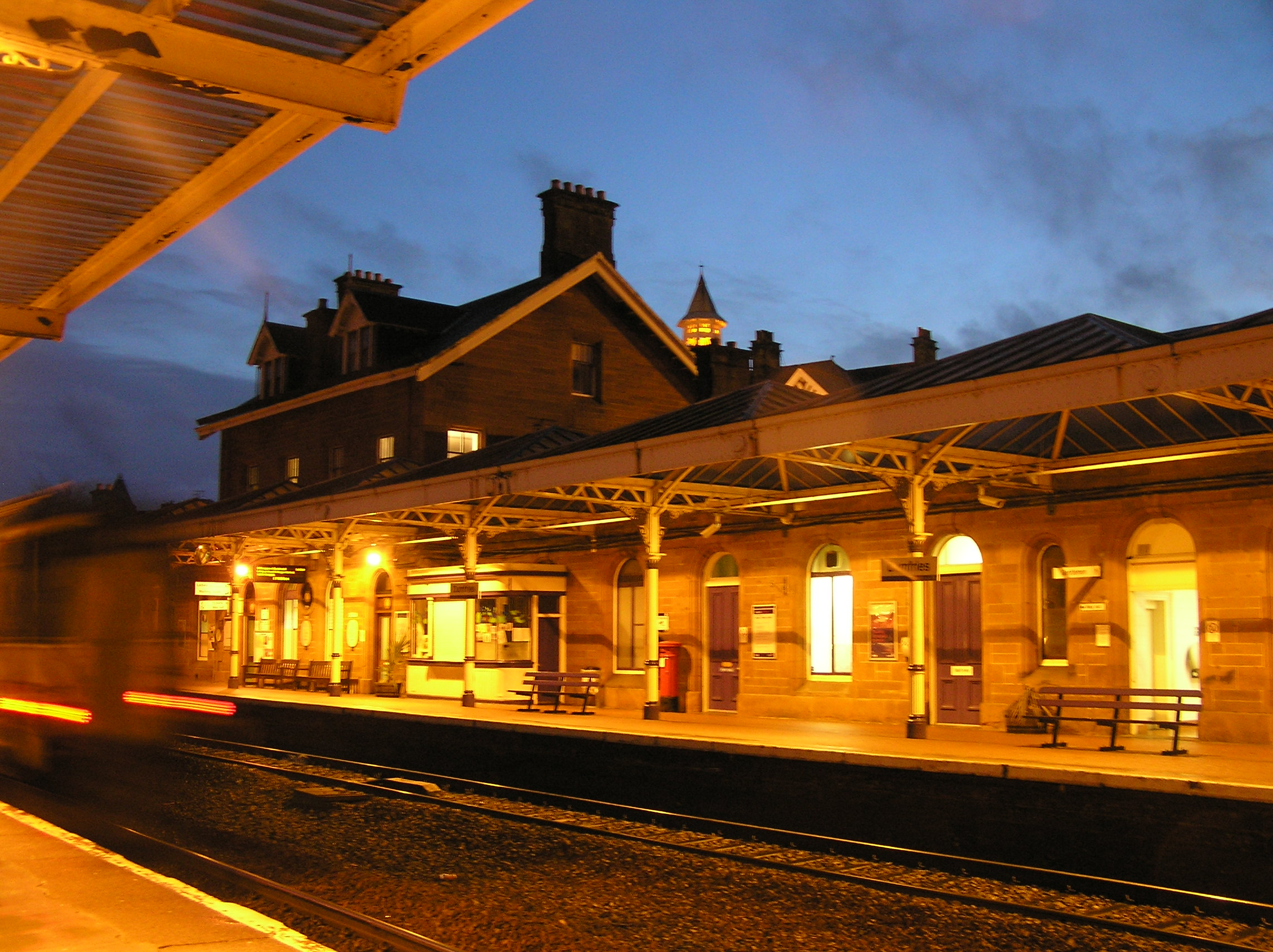 Dumfries Railway Station. The top of the Station Hotel can be seen in the background.